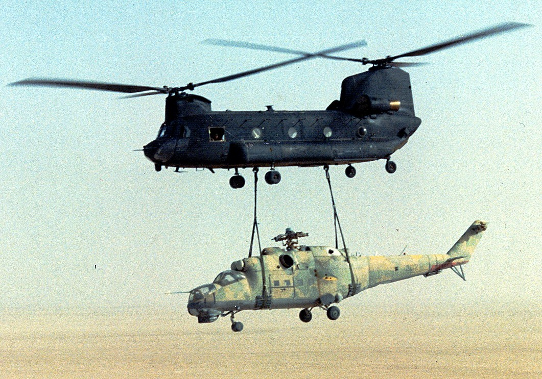 A U.S. Army CH-47 Chinook, from the 160th Special Operations Aviation Regiment (Airborne), sling-loads a Mi-24 Hind out of the desert of Chad, knonw as Operation Mount Hope III